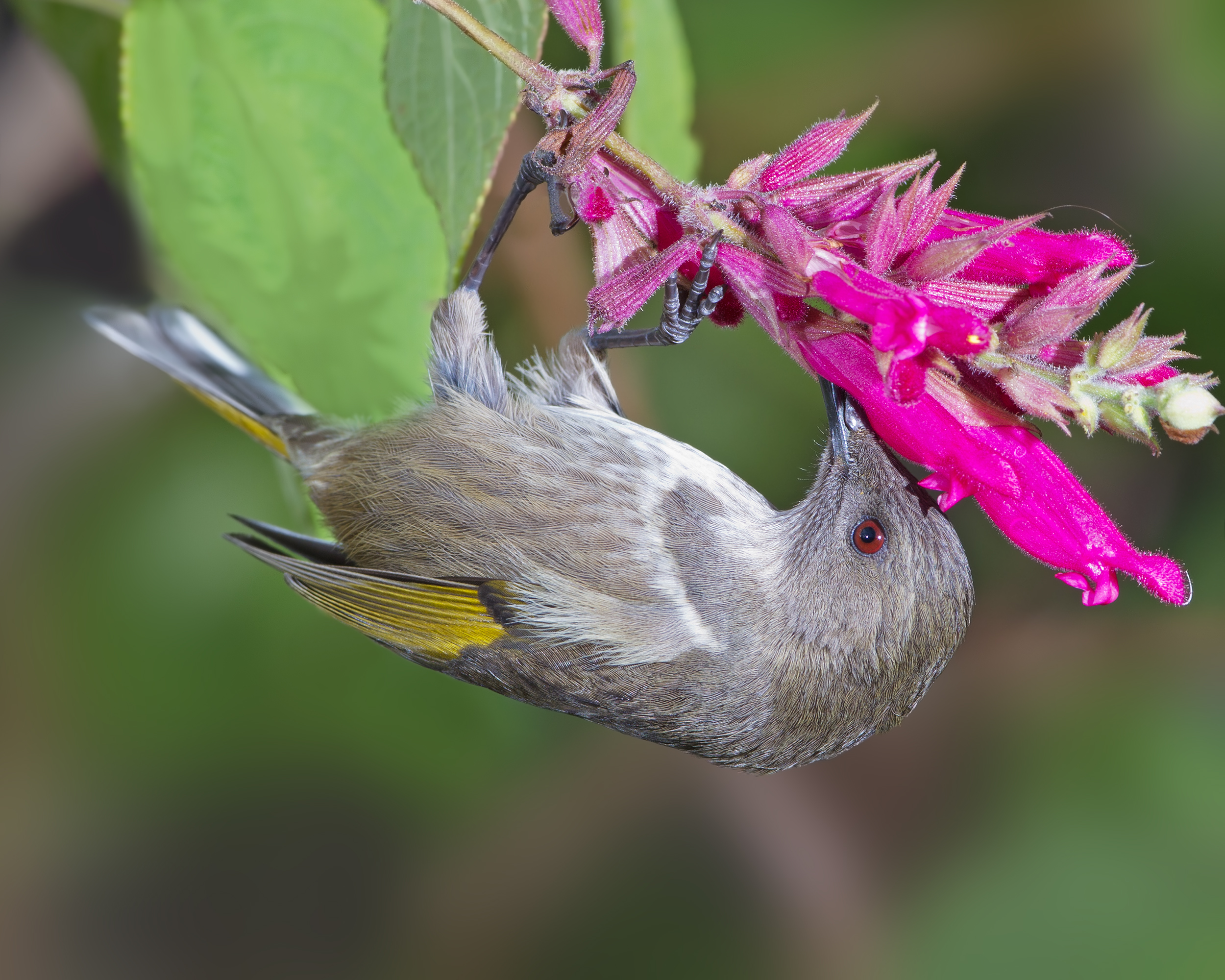 Crescent Honeyeater (Phylidonyris pyrrhopterus') female feeding, Austin's Ferry, Tasmania, Australia